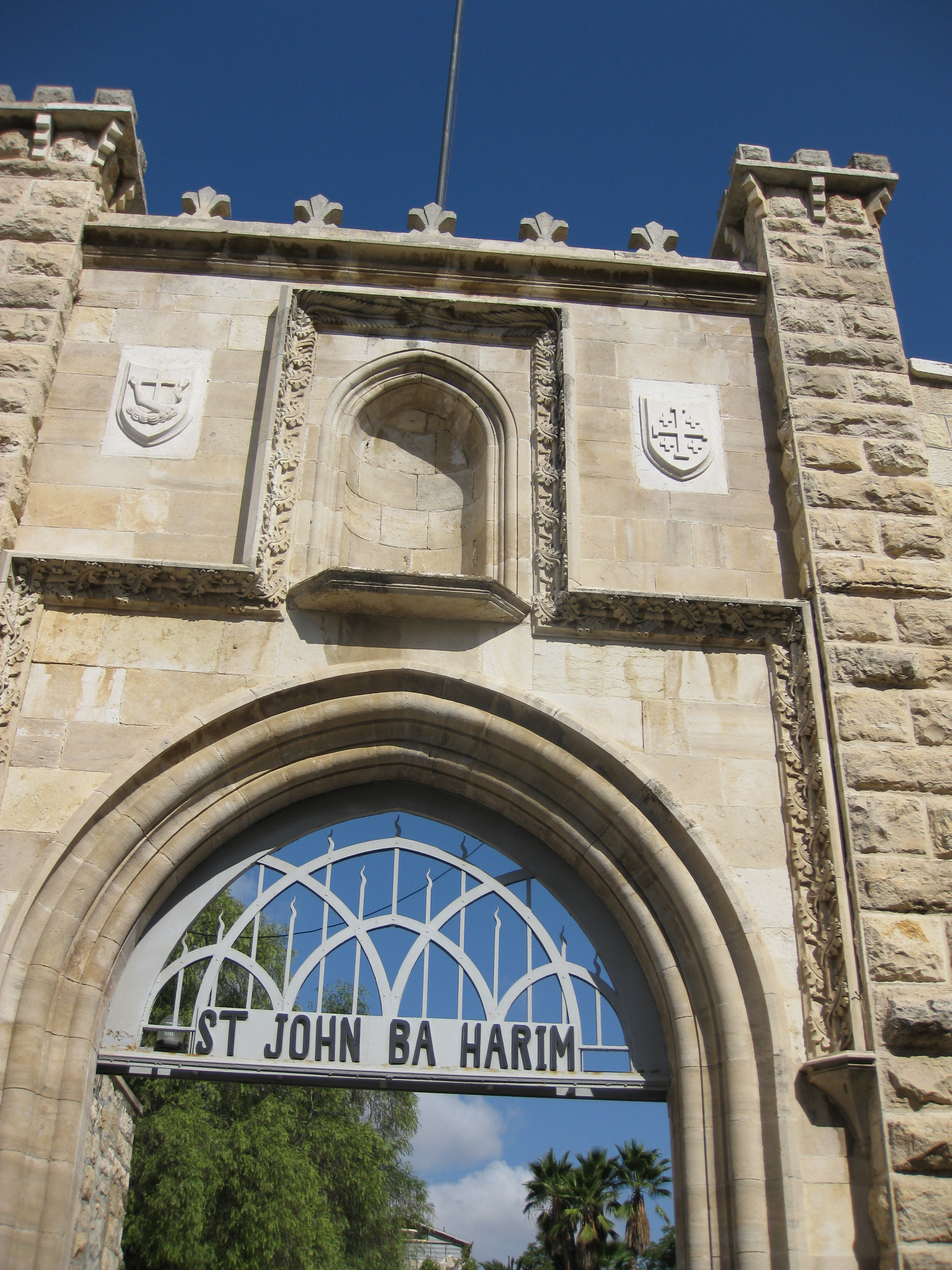 St. John the Baptist in the Mountains